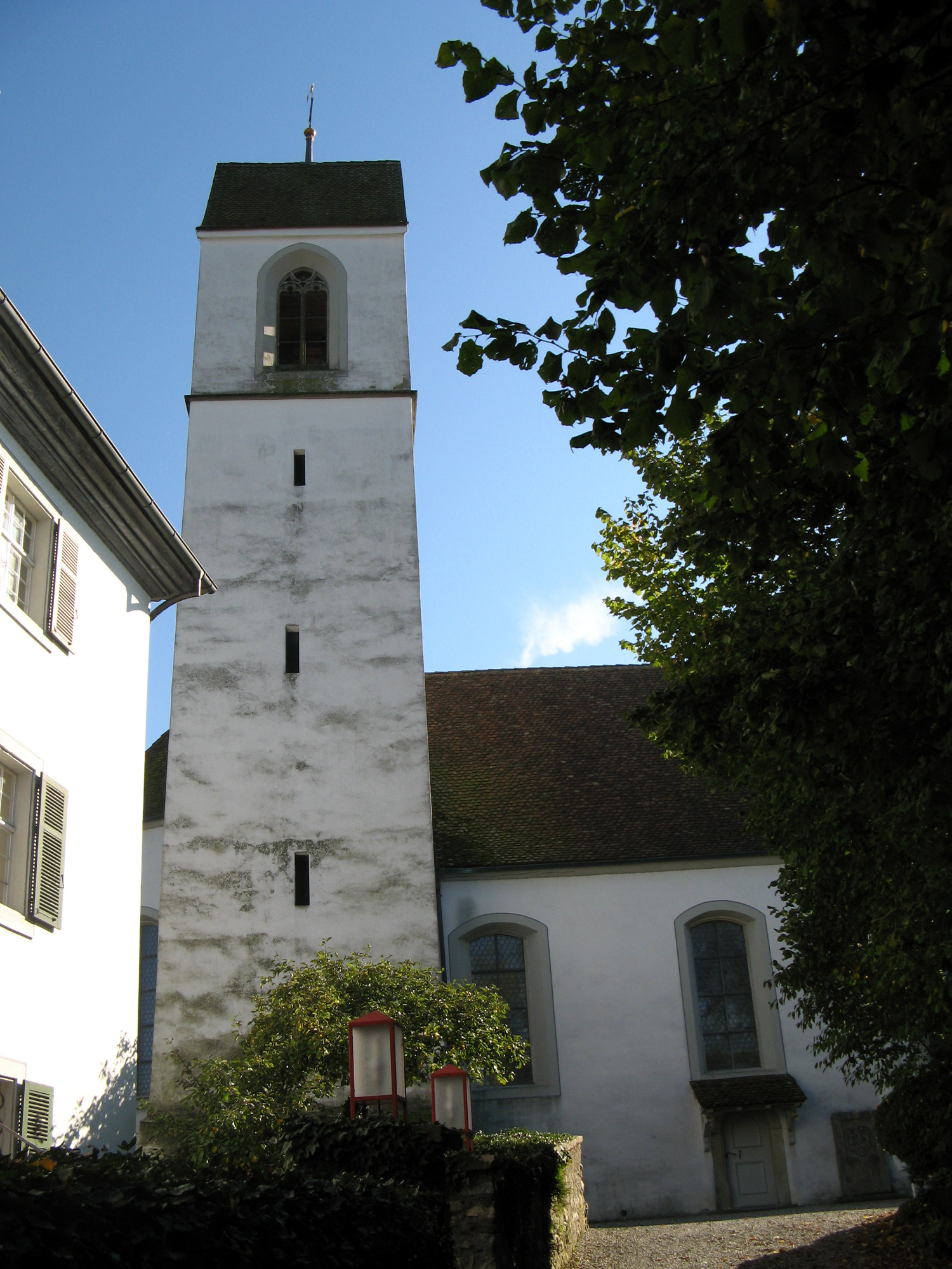 Tower of the Old Church in Boswil